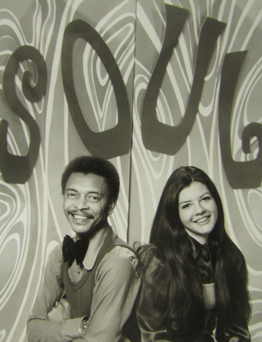 press photo of Buster Jones and Vicki Donaldson for Soul Unlimited in 1973